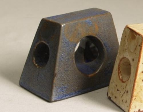 Object asymmetrical trapezoid shape by Christopher Agterberg, 1940-50